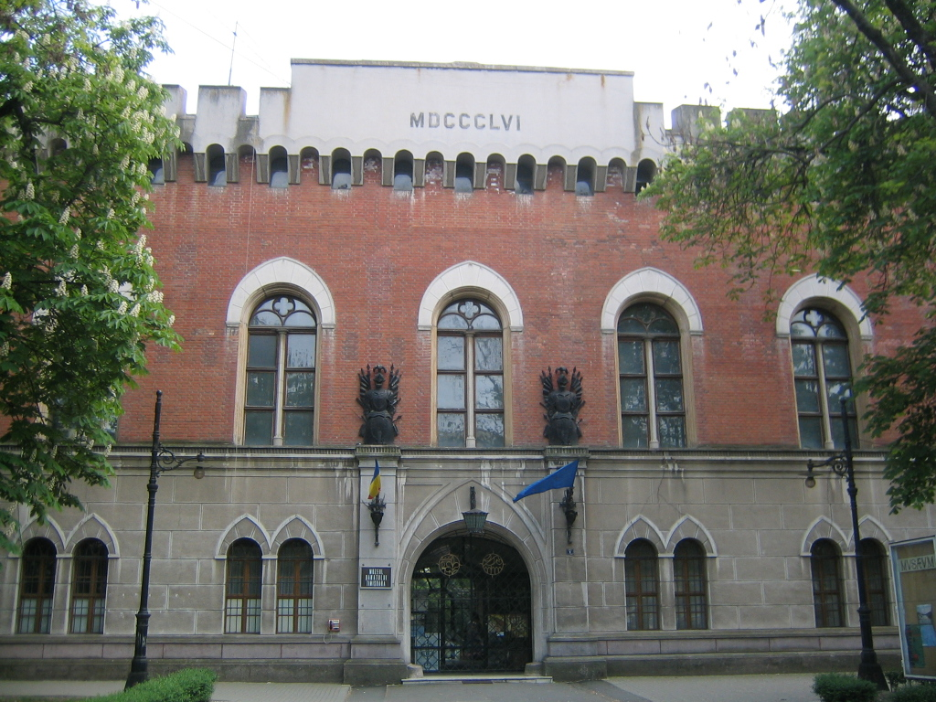 Main entrance in the Huniade Castle, Timisoara, Romania.